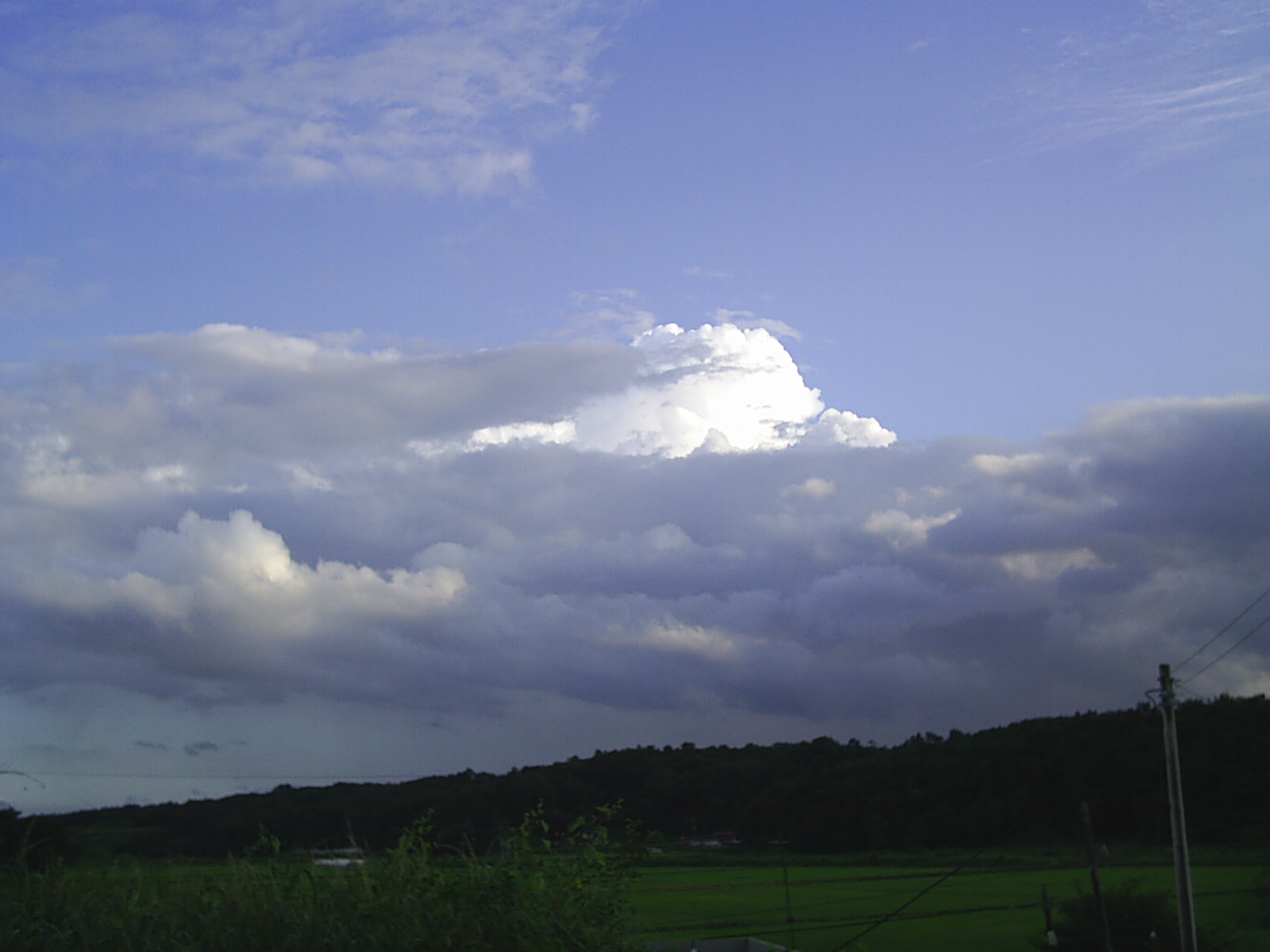 Cumulonimbus cloud in Hongseong, Chungcheongnam-do(South Chungcheong), South Korea